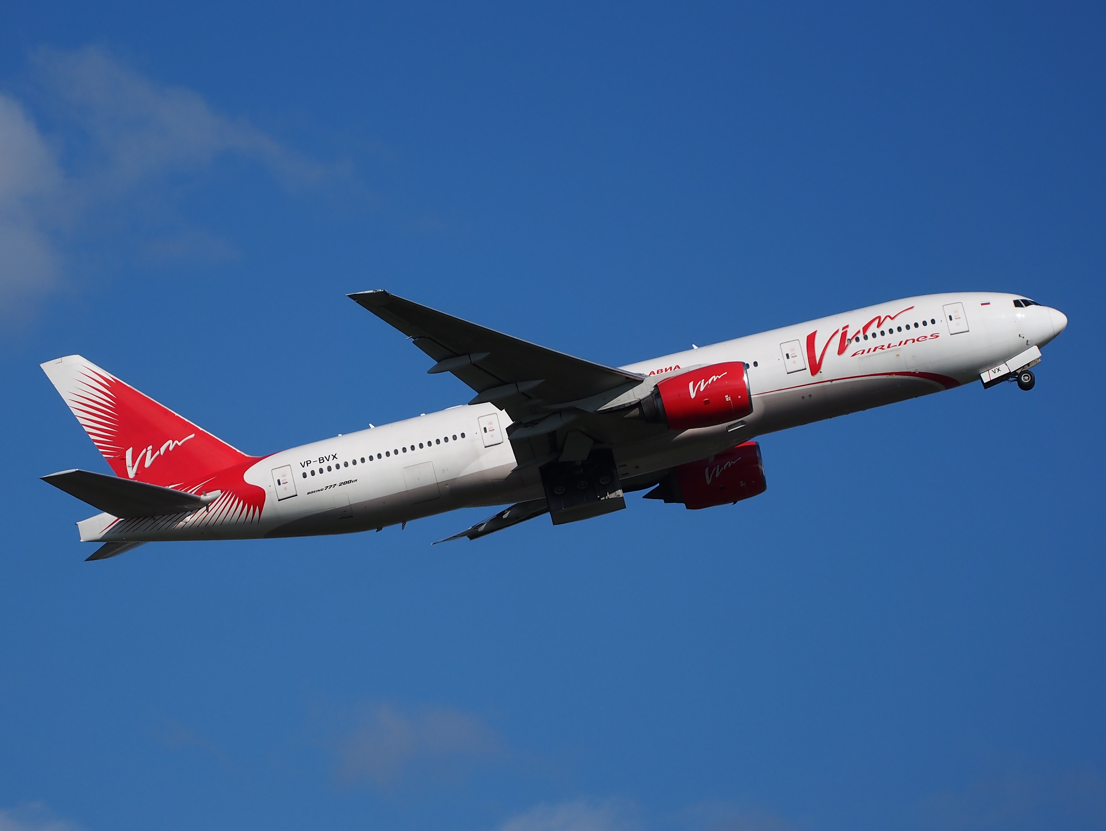 Photographed at Schiphol, Amsterdam airport, (IATA: AMS, ICAO: EHAM), the Netherlands.